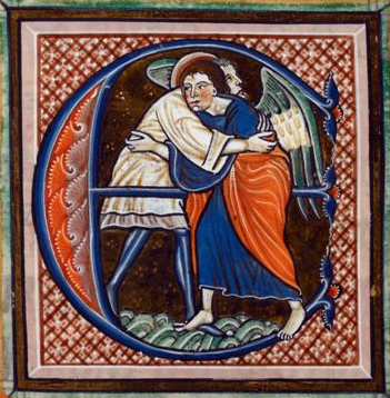 Initial E from Egerton 1066 f. 62v Jacob wrestling with the angel (c.1270-90)